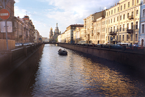 Canal in St. Petersburg, Russia